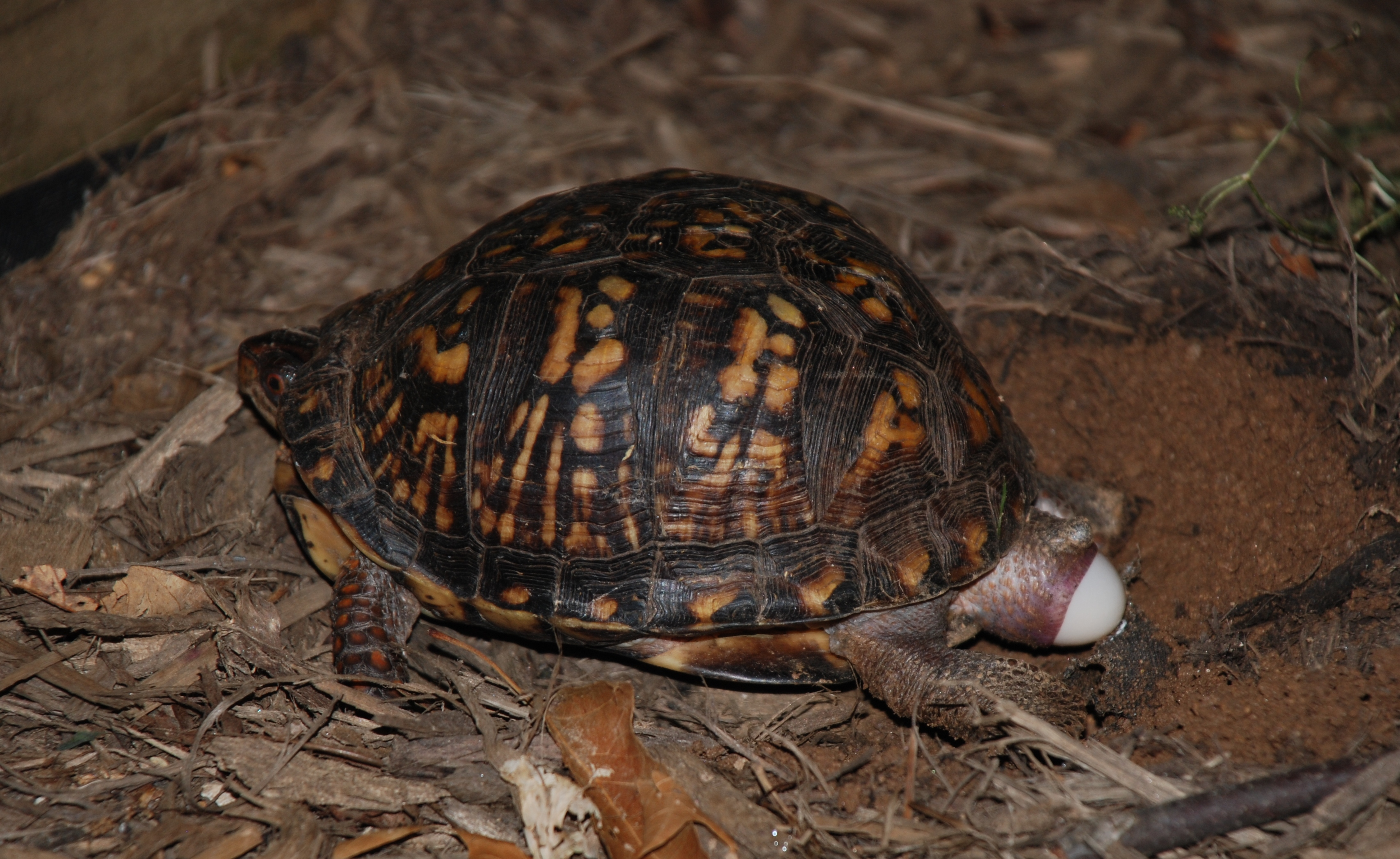 Eastern Box Turtle (Terrapene Carolina carolina) digging a hole and laying eggs in Fairfax, Virginia.